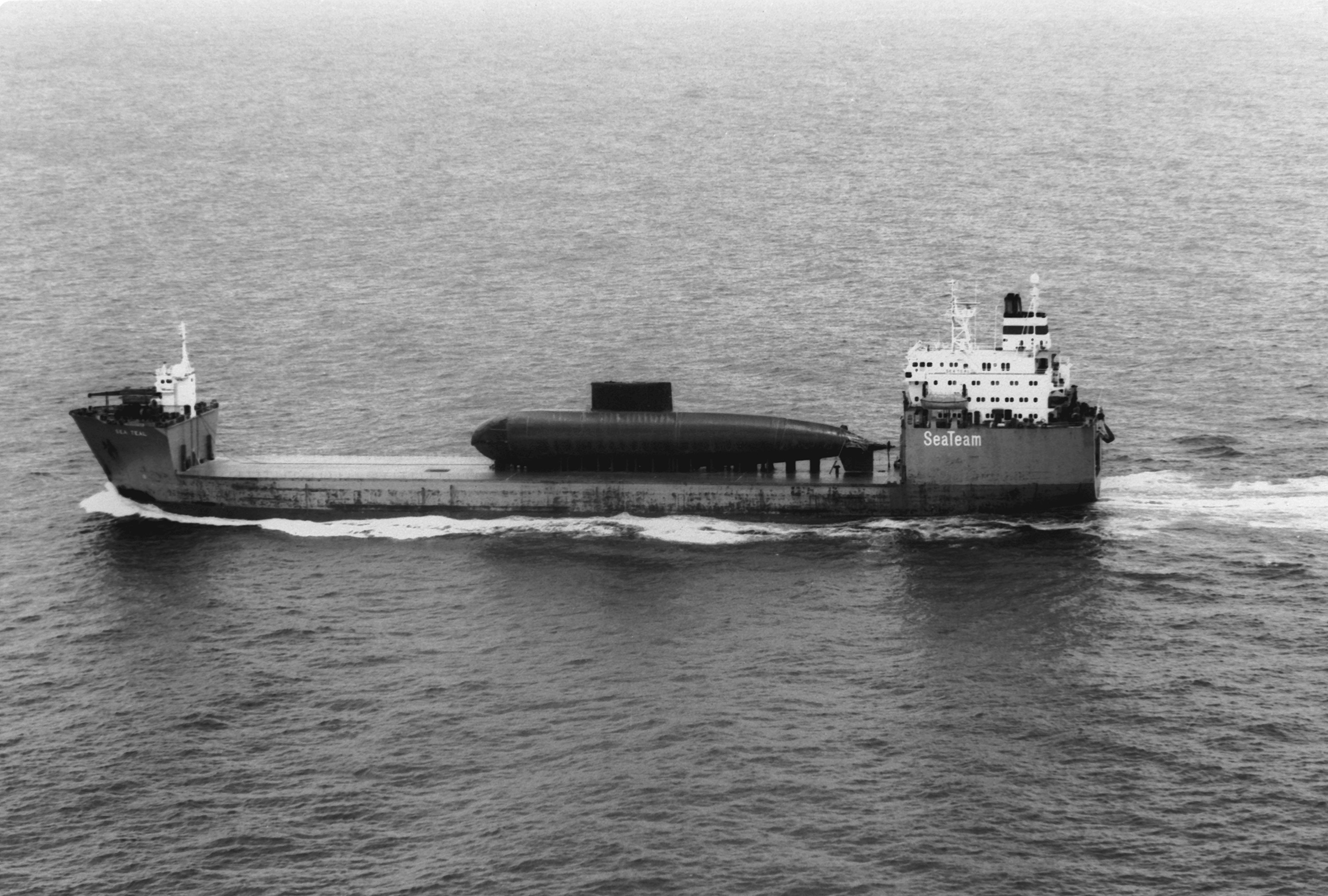 The second Chinese Navy Russian built Kilo class diesel powered submarine being delivered as deck cargo on board the commercial SEMI-SUBMERSIBLE heavy-lift cargo ship Sea Teal. Information about Sea Teal may be found at IMO 8113566. A ship can change name and flag state through time, but the IMO number remains the same through the hull's entire lifetime. As a result, it can be useful to identify a ship by using the IMO number.